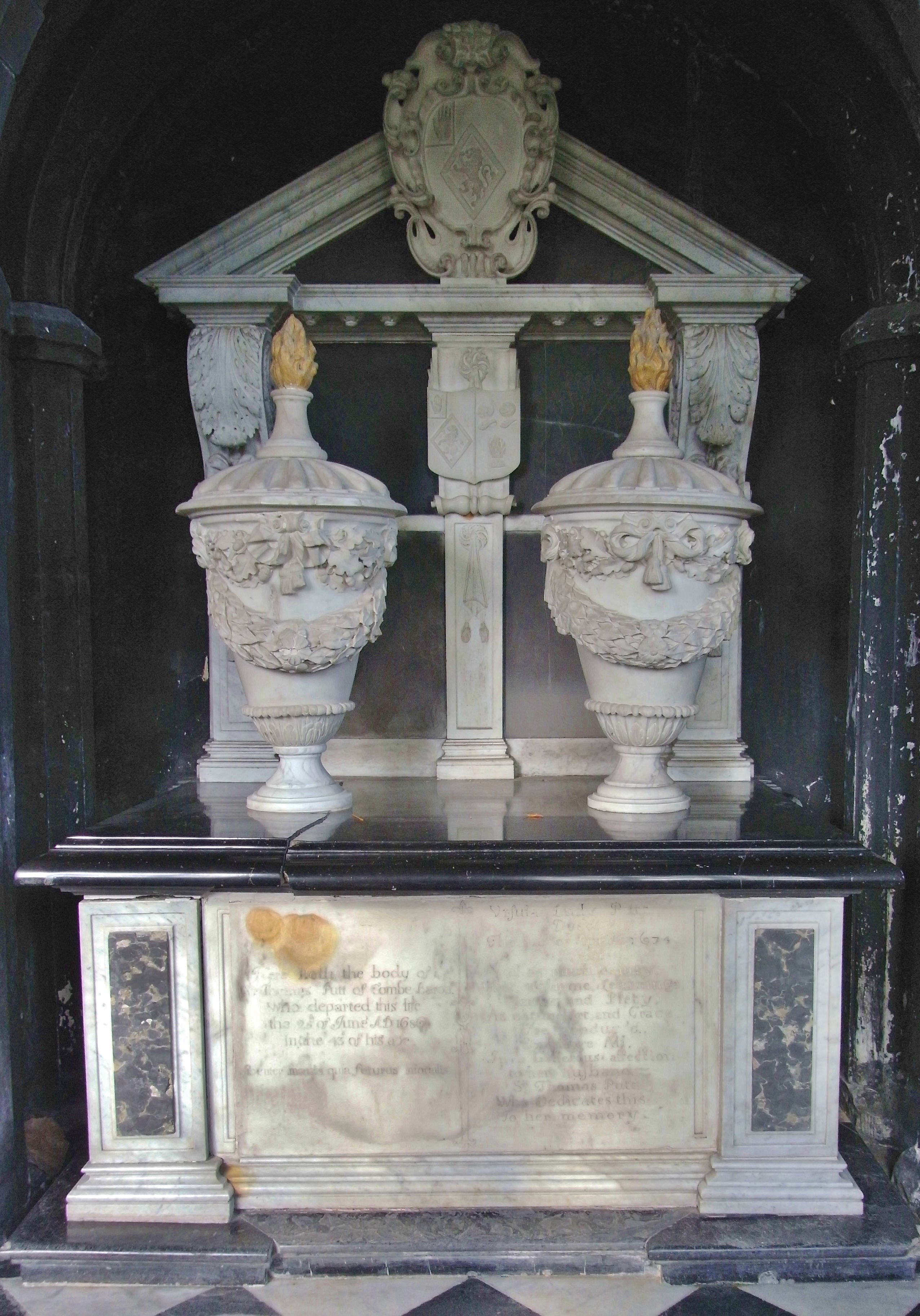 Monument in the south aisle of St Michael's parish church, Gittisham, Devon, to Sir Thomas Putt, 1st Baronet (1644–86), of Combe. He was Member of Parliament for Honiton, Devon, March 1679, October 1679, 1681, 16 April – 15 June 1685 and 3 October 1685 – 25 June 1686. He was Mayor of Honiton in 1685. He married Ursula Cholmondeley, a lady-in-waiting to Queen Catherine of Braganza, consort of King Charles II.